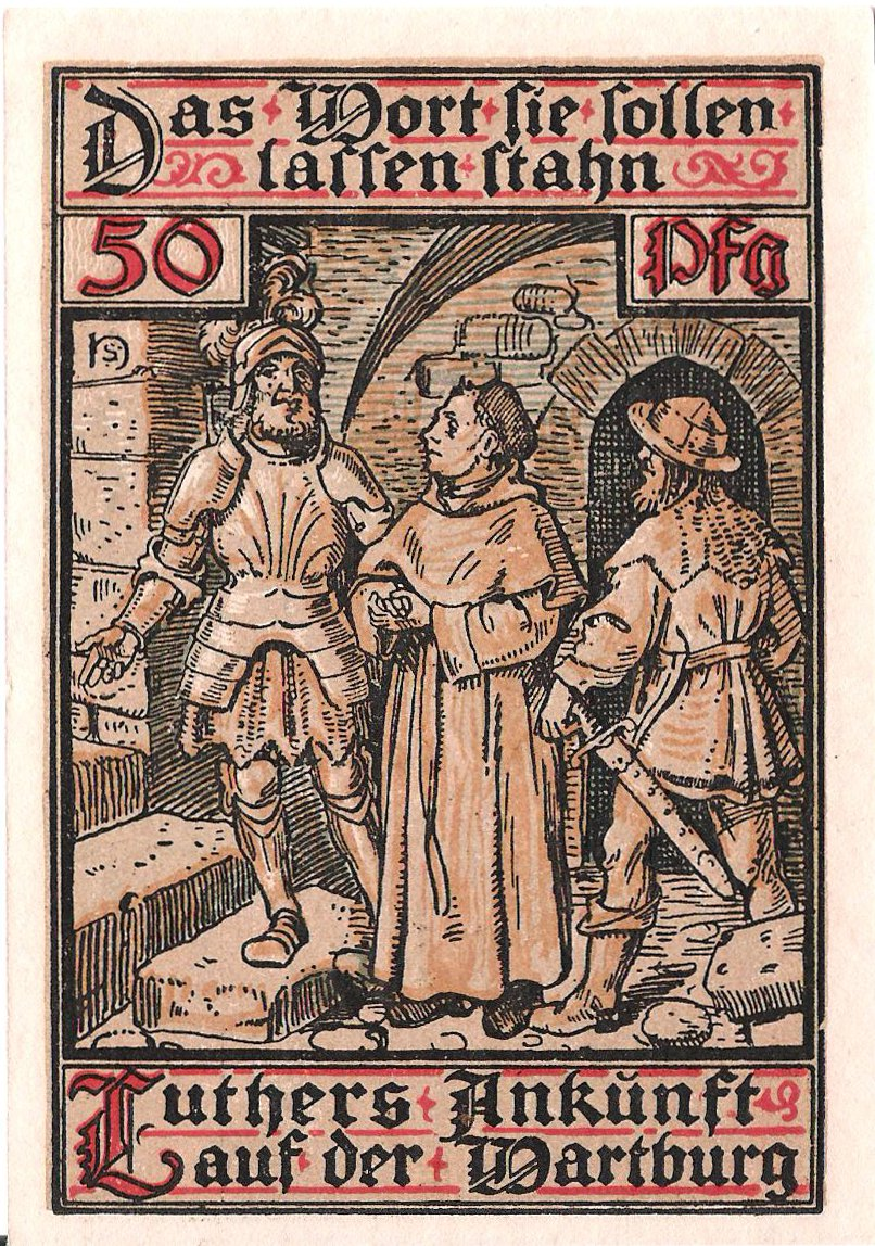 local emergency money, Eisenach 1921